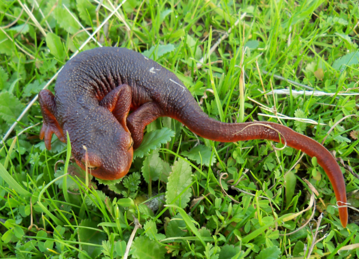 Amphibian of California